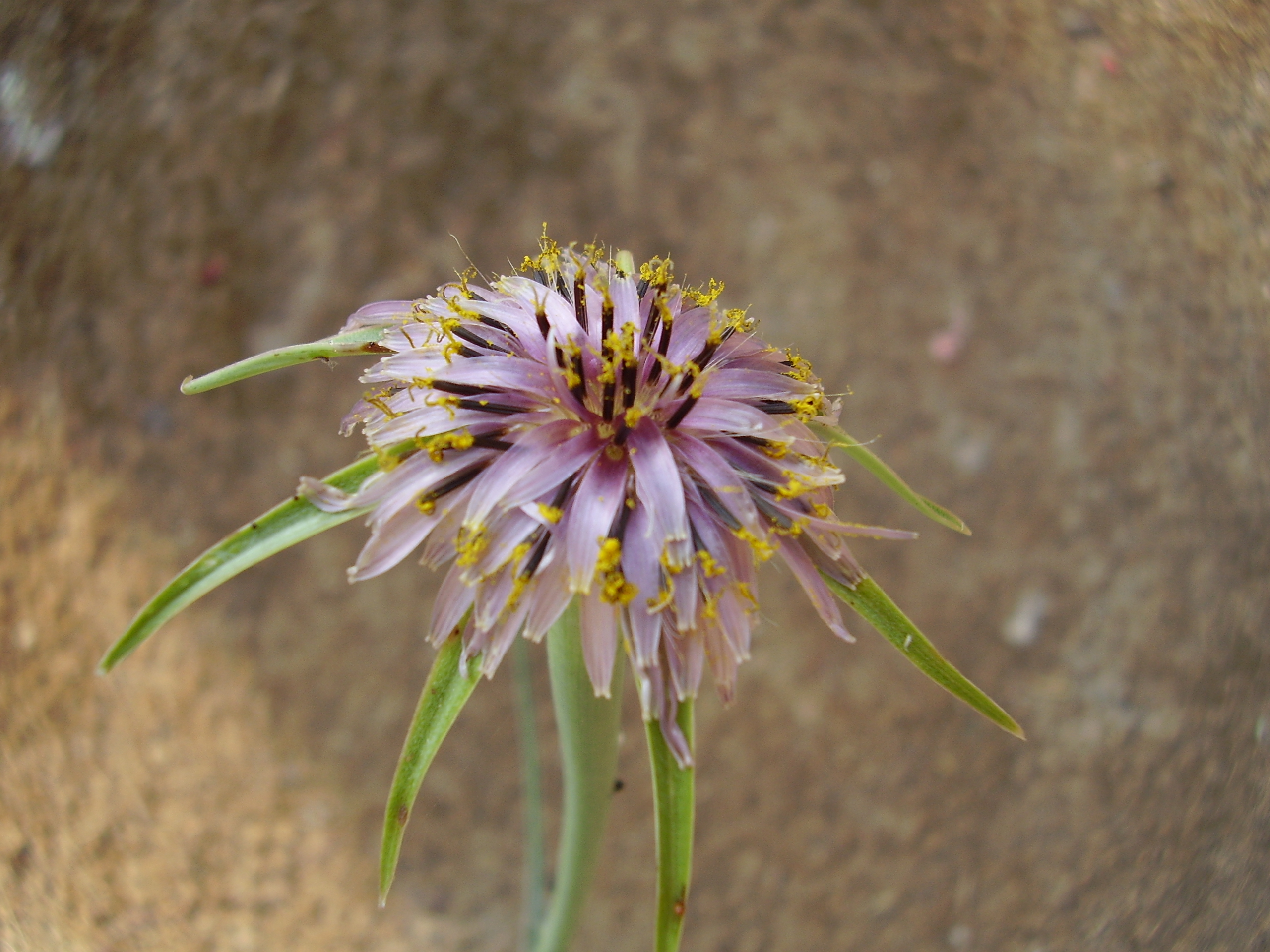 Tragopogon coelesyriacus